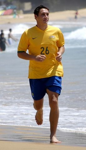 Mark Milligan at Olyroos training.